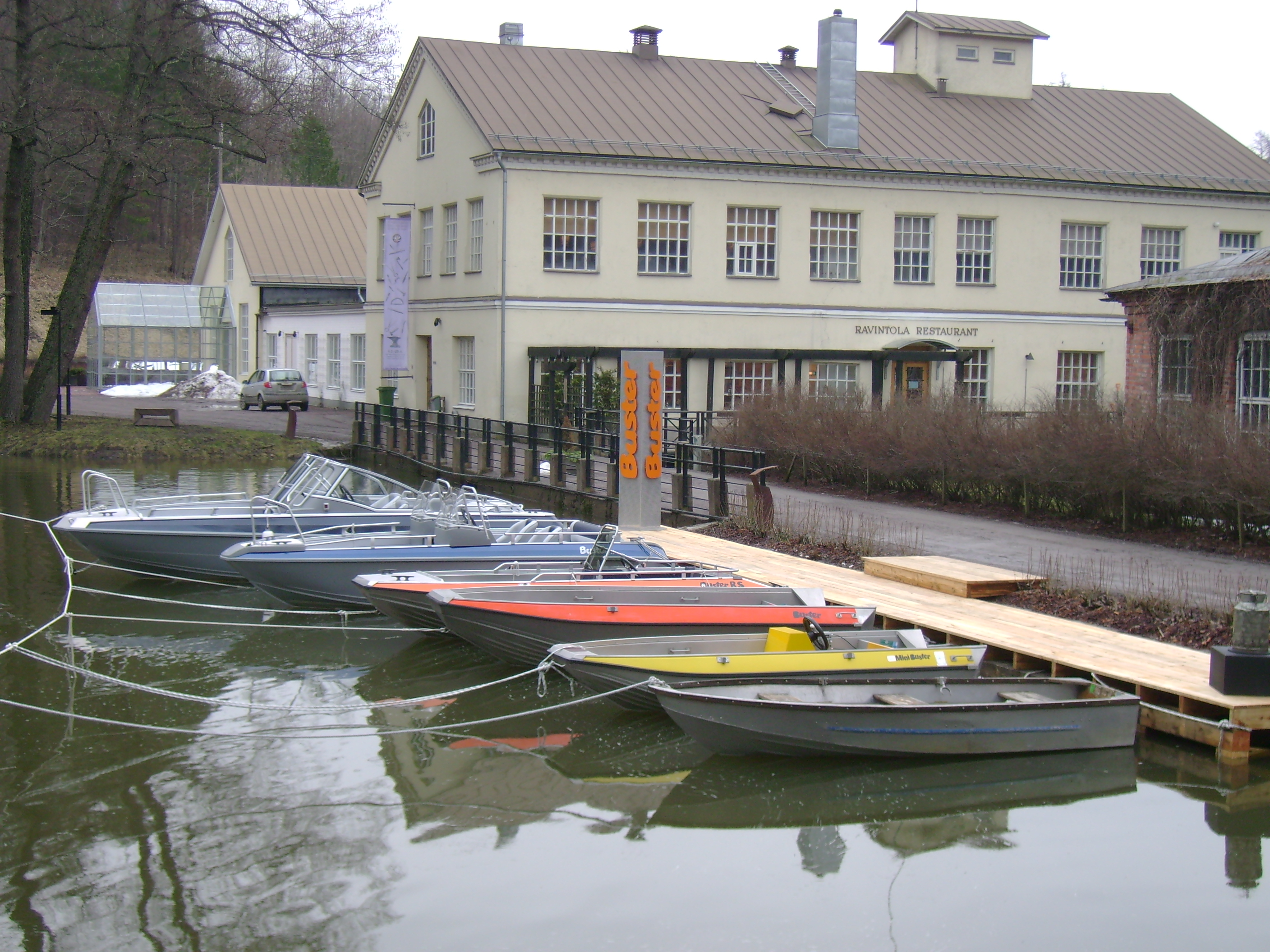 Aluminium Buster boats made by Fiskars and Buster boat's early predecessor Kellovene made by Kellokosken Tehtaat photographed at Fiskars Village, Raasepori, Finland. From front: Kellovene, Mini Buster, Buster, Buster RS, Buster X and Buster Magnum.